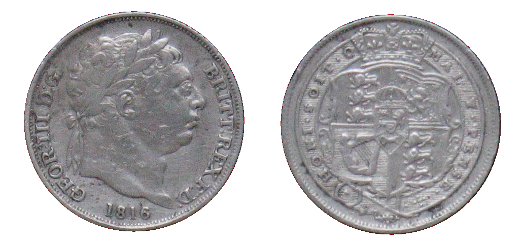 1816 British sixpence.